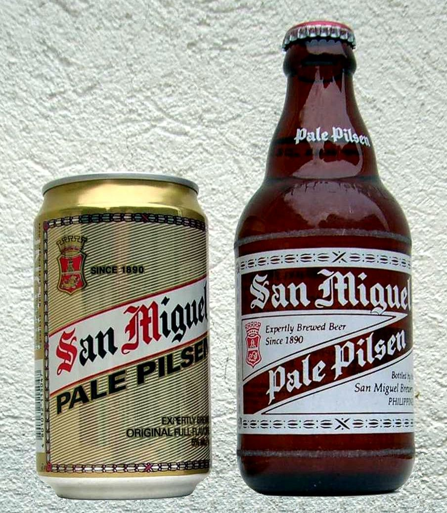 Bottle and can of beer San-Miguel selling in the Philippines